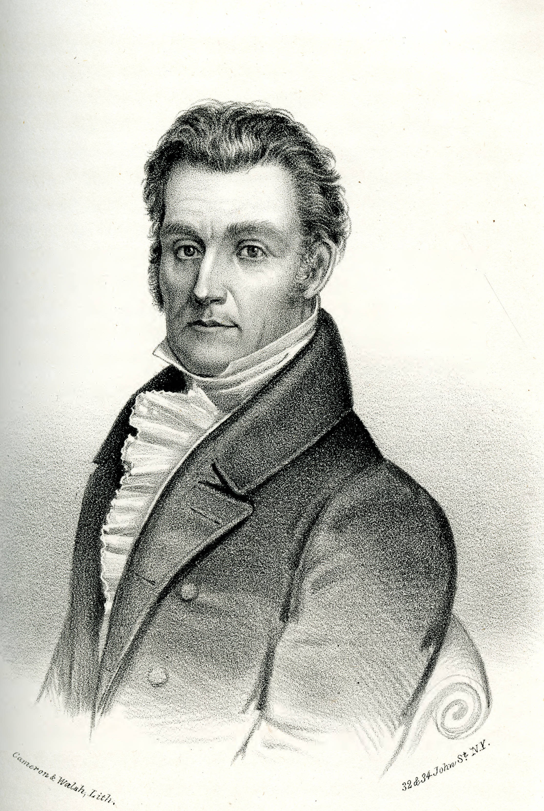 Joel Doolitle, Vermont Supreme Court Justice